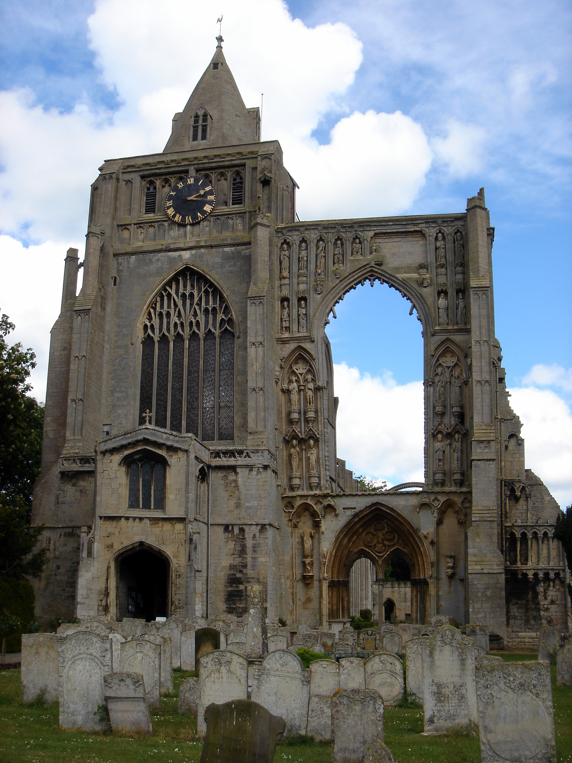 The parish church of Crowland and, the west front of the ruined nave of the Croyland Abbey.